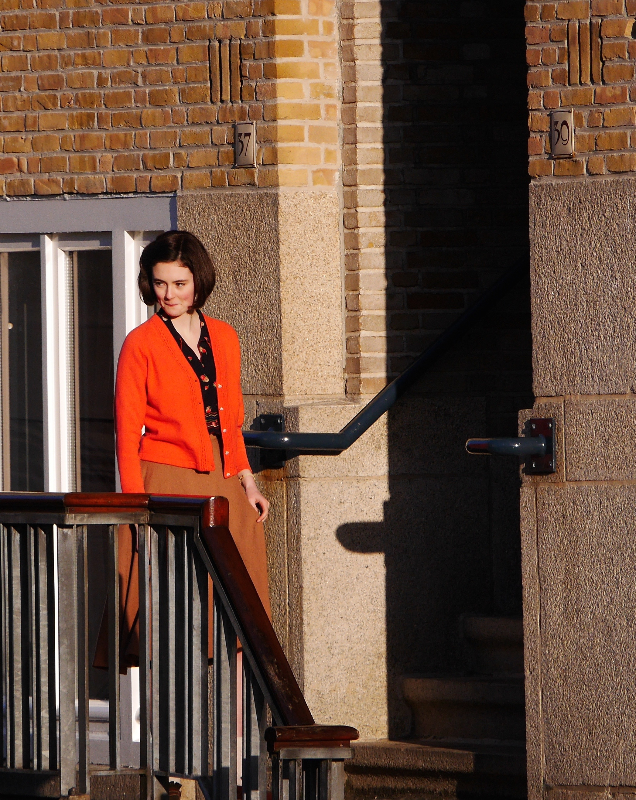 German actress Lea van Acken playing Anne Frank during the shooting of Das Tagebuch der Anne Frank